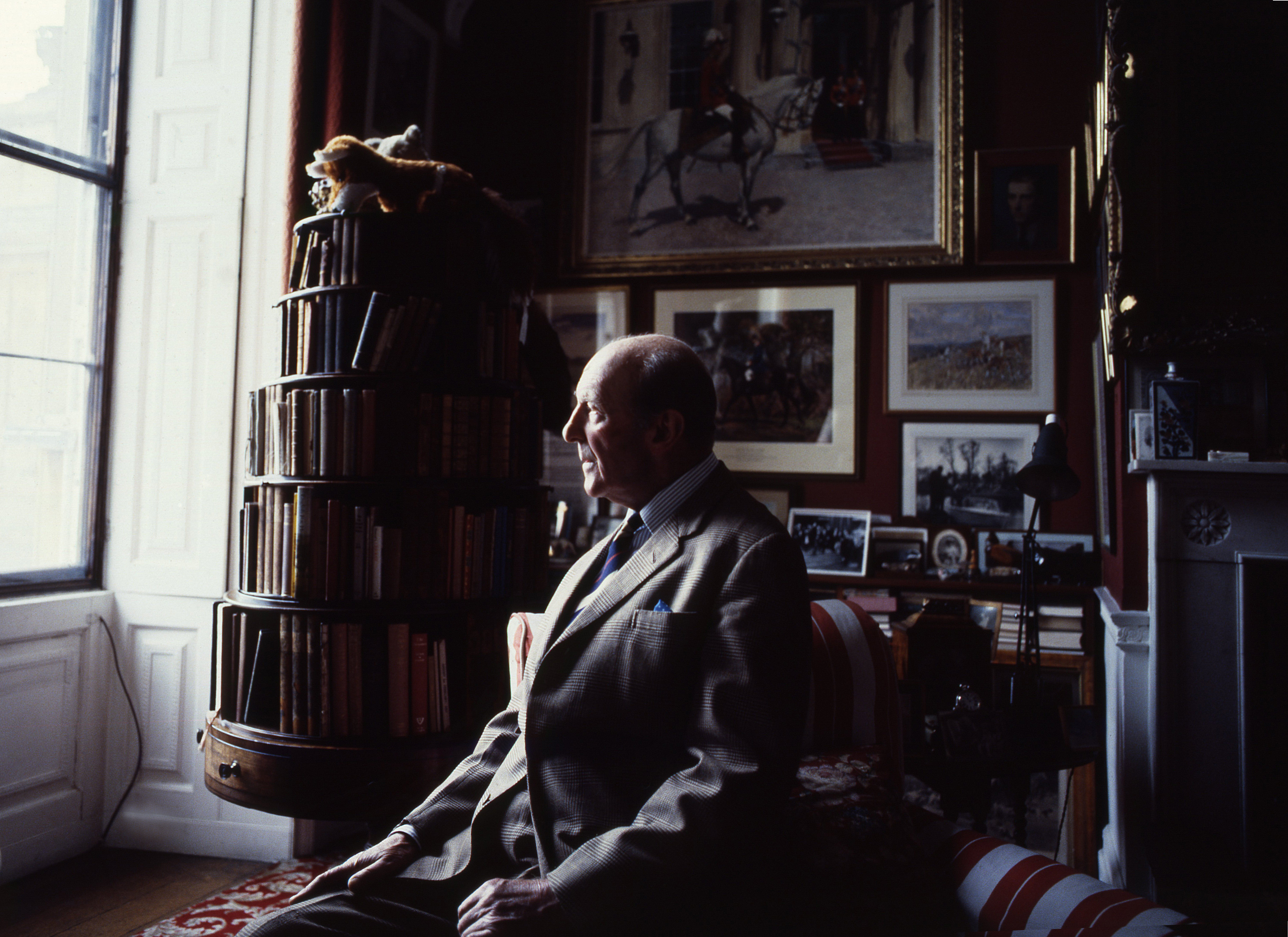 The 10th Duke of Beaufort in his study at Badminton, Wiltshire